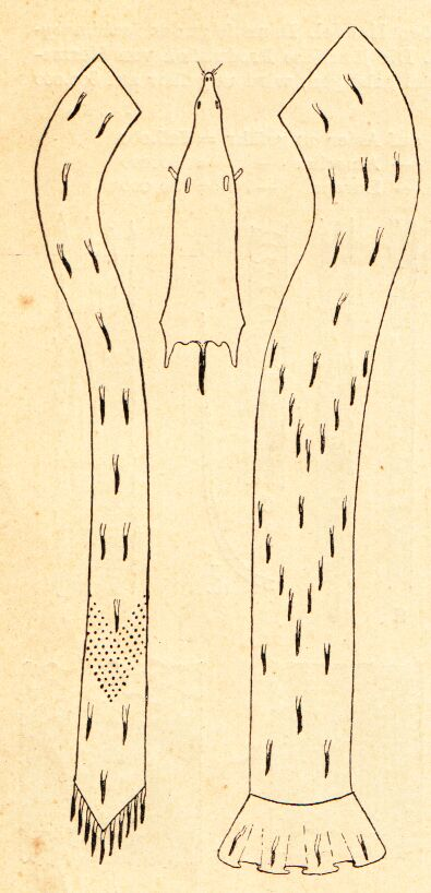 Ermine clothing, spotted works